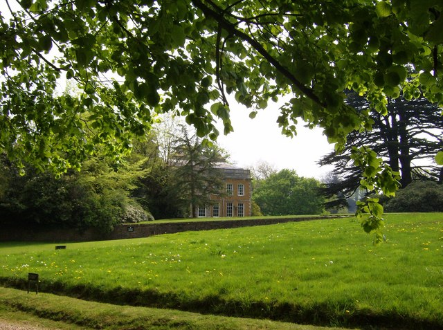 Glimpse of Farnborough Hall